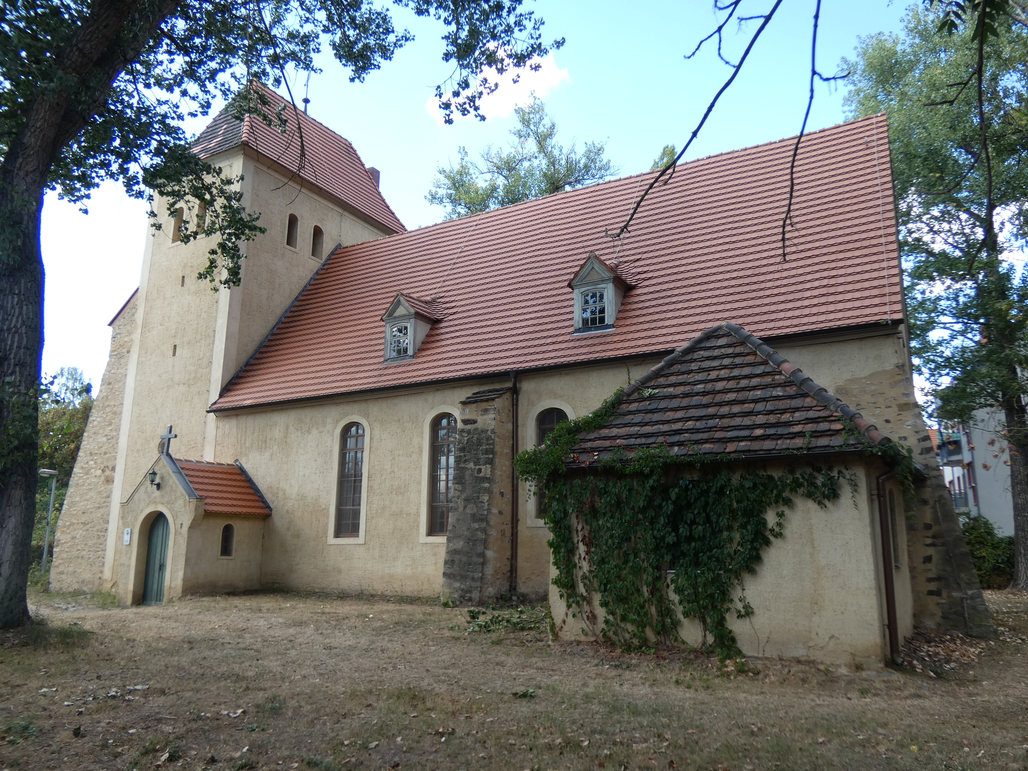 St. Wenceslaus Church in Radewell (Halle/Saale, Saxony-Anhalt), southern side